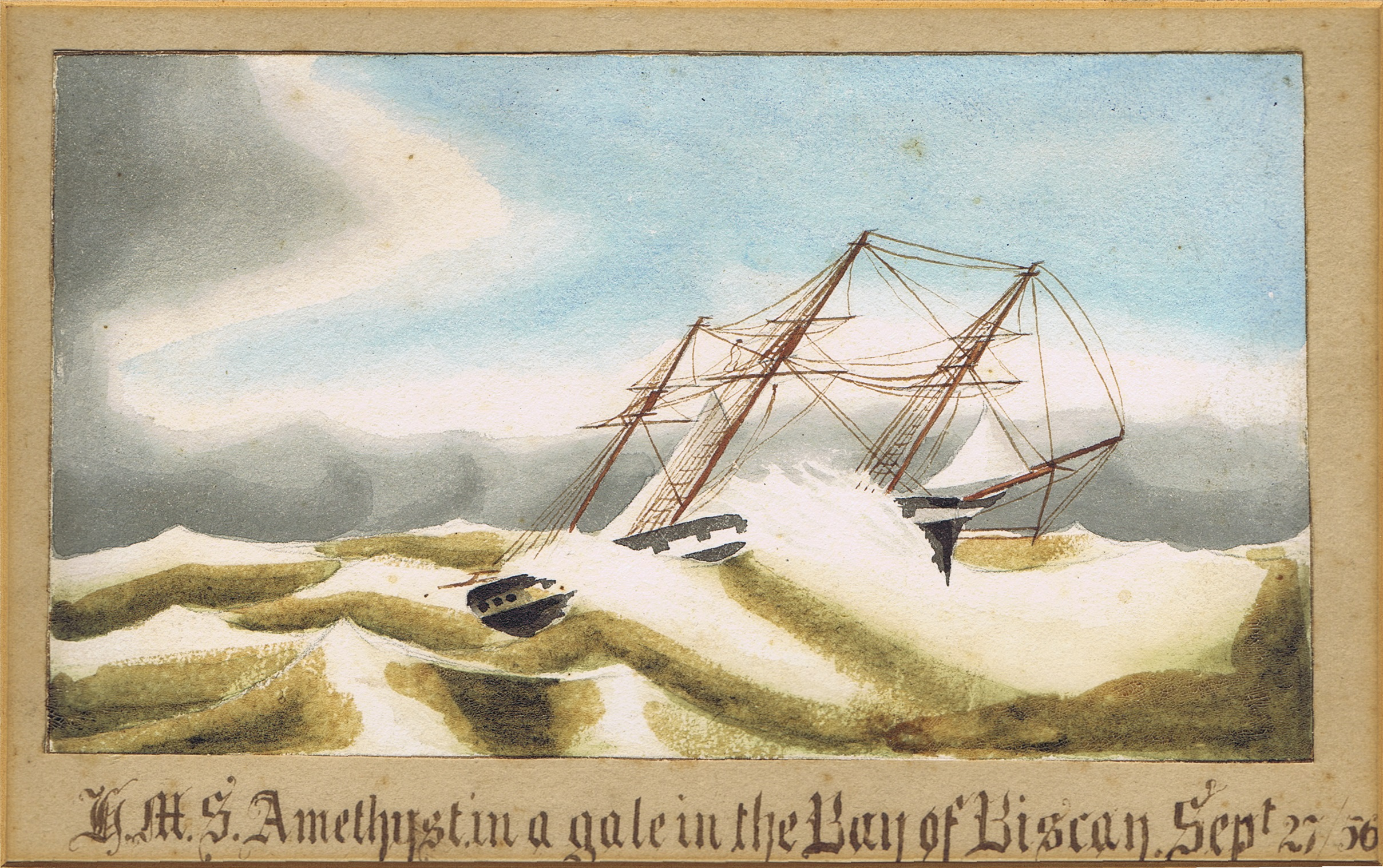 HMS Amethyst, in a gale in the Bay of Biscay, Sept 27/ 56 Gaff rigged three mast sailing boat Probably HMS Amethyst (1844), Spartan-class 26-gun sixth rate launched in 1844 and sold in 1869 for use as a cable vessel.